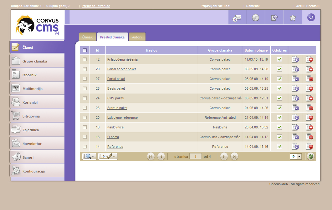 Corvus CMS user interface